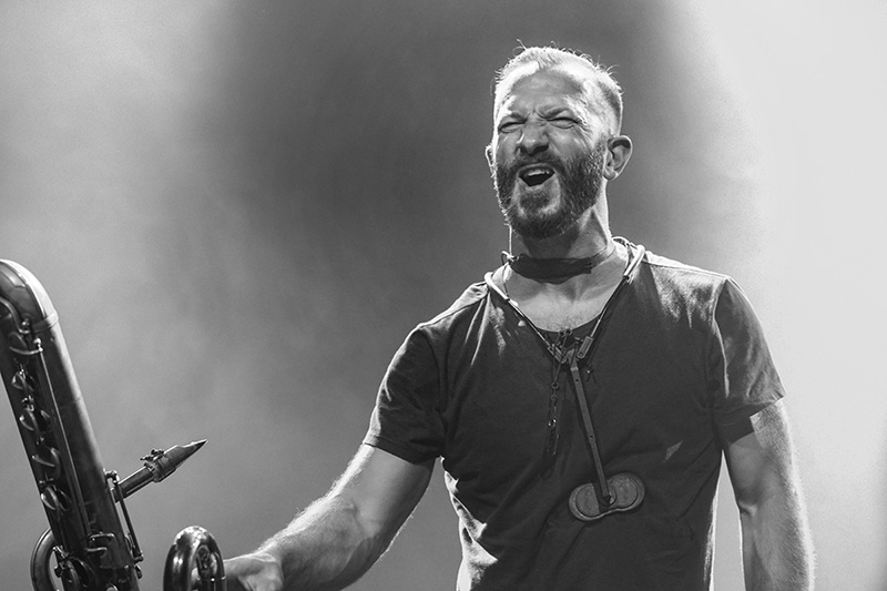 Colin Stetson at Aarhus Festival, Denmark 2017